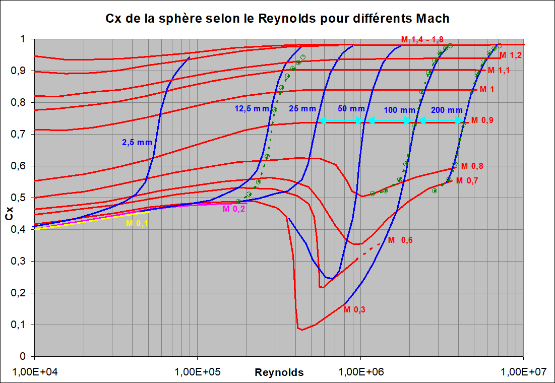 The red curves give the Cx of the sphere to a certain number of Mach. For the incompressible flows (up to Mach 0.3 included), the yellow, fuchsia and red curves are almost mixed up: They draw together the classic curve of the Cd crisis of the sphere versus its Reynolds (see [CX_SPHERE.png]): it is the lower red curve. But when, for a certain sphere diameter, the flow velocity is increased (in order to increase the Reynolds), the later increases very slightly, but especially the Cd increases vertiginously (blue curves for each diameter).We are forced, to sweep all possible Reynolds, to increase the diameter of the sphere (and therefore of the wind tunnel).